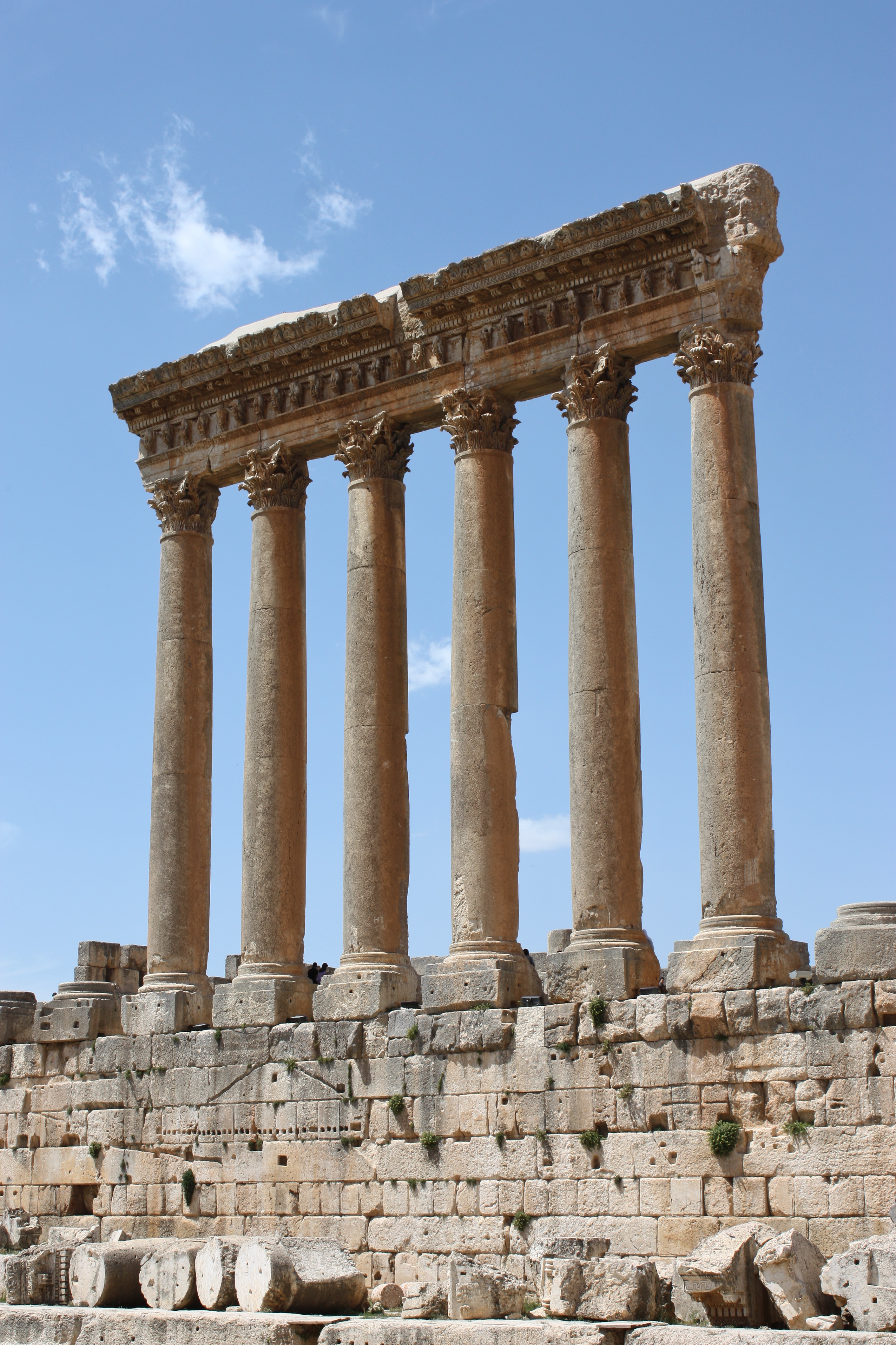 The temple of Jupiter in Baalbek temple complex, in Lebanon.